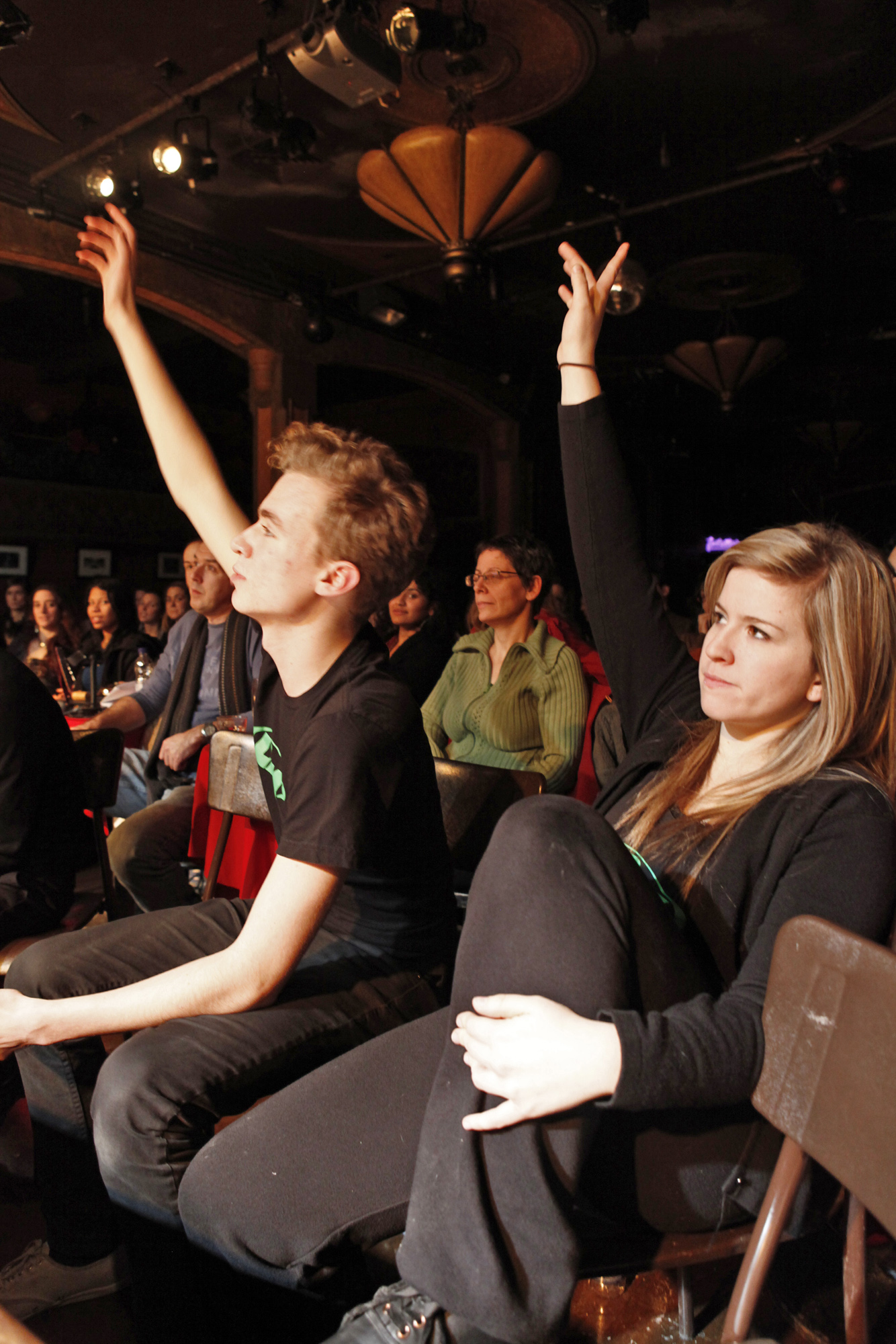 (DESCRIPTION). The Ligue d'improvisation montréalaise (LIM) is a league of improvisational theater based in Montreal, Quebec, Canada.